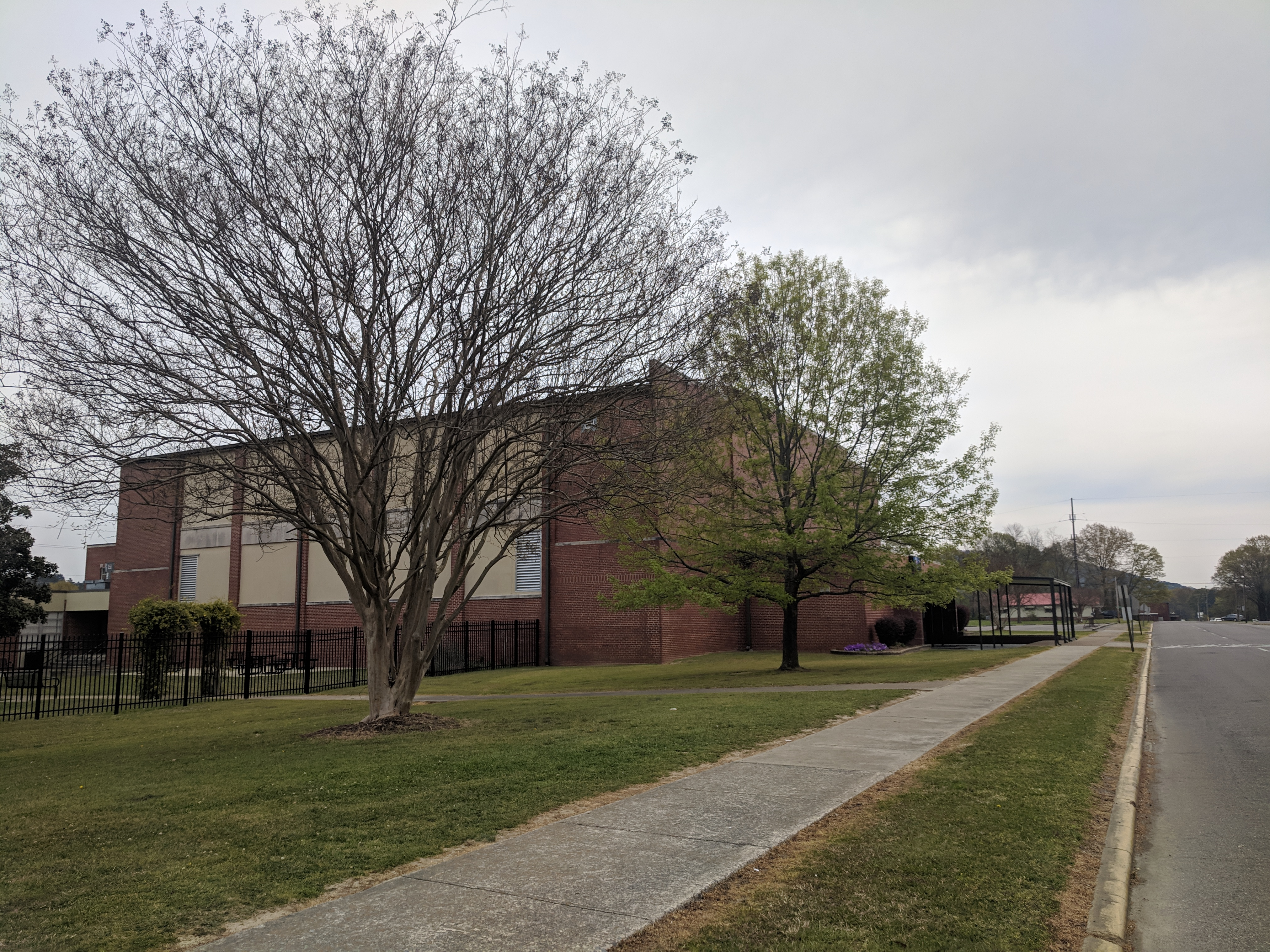 Emma Sanson Middle School was originally built as a high school in 1929 in memory of a Confederate heroine, Emma Sansom.